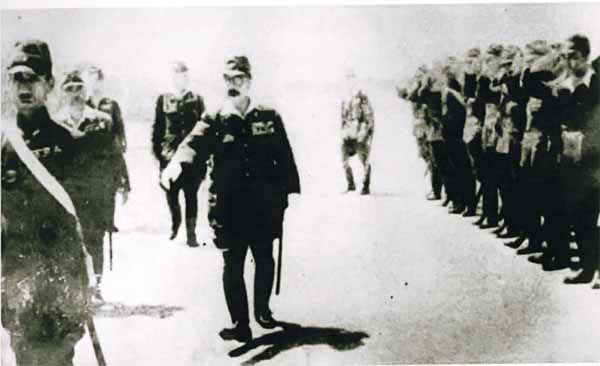 General Hideki Tōjō, who is also the Prime Minister of Japan inspecting an airfield in Kuching, while soldiers giving a salute.